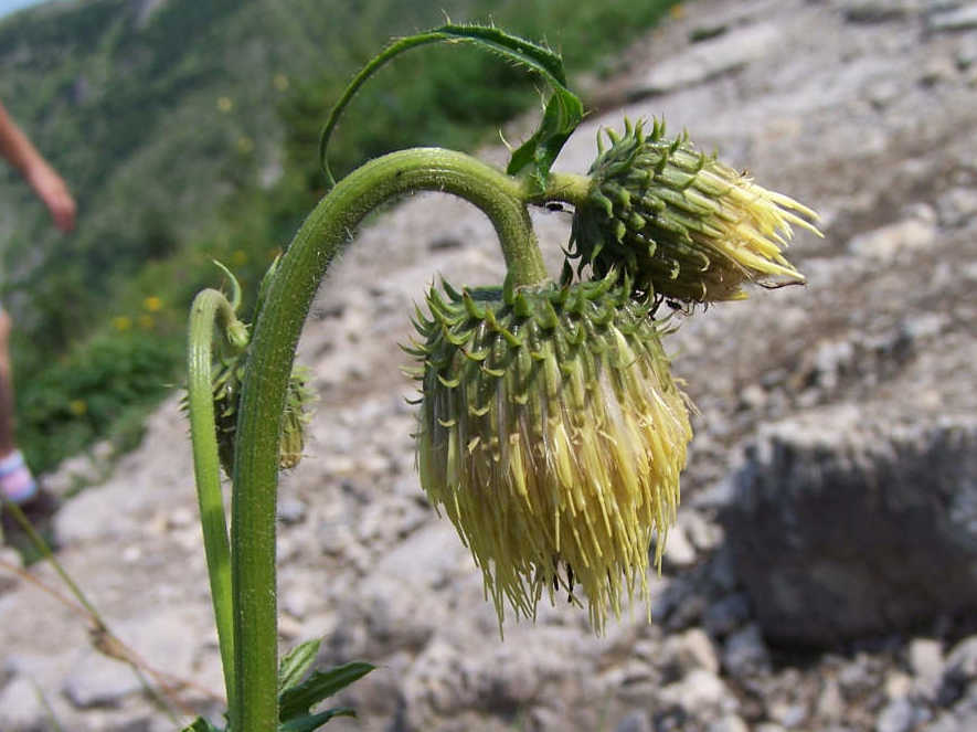 Cirsium erisithales (pl. ostrożeń lepki), habitat: Tatra Mountains, Dolina Jaworzynka